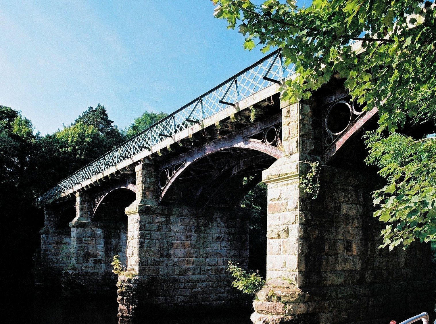 Disused railway bridge at the Crook o' Lune in Lancashire, England. It is one of two bridges, only 200 m apart, built across the River Lune by the "little" North Western Railway in 1849, designed by Edmund Sharpe. The line closed in 1966, but the bridges are still in use as a cyclepath and footpath along the disused line.